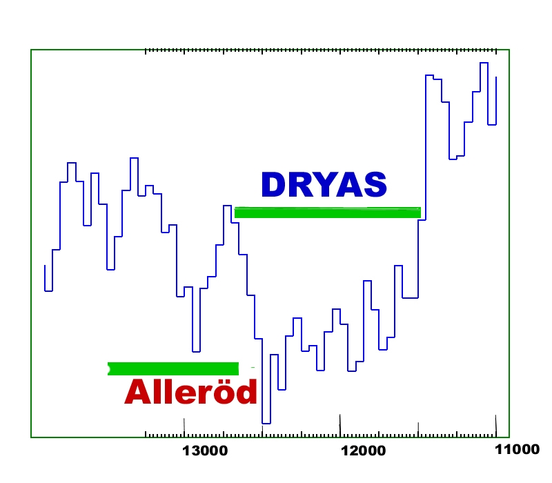 Younger dryas cold period (also called «Big freeze») seen in NGRIP oxygen isotope curve, which correlates with temperature.